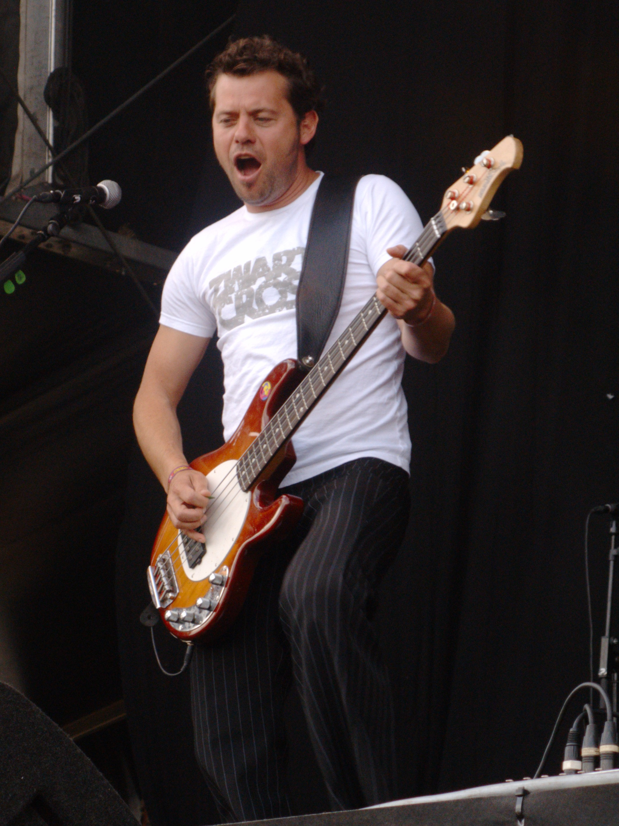 Gijs Jolink performing with Jovink at Zwarte Cross 2011